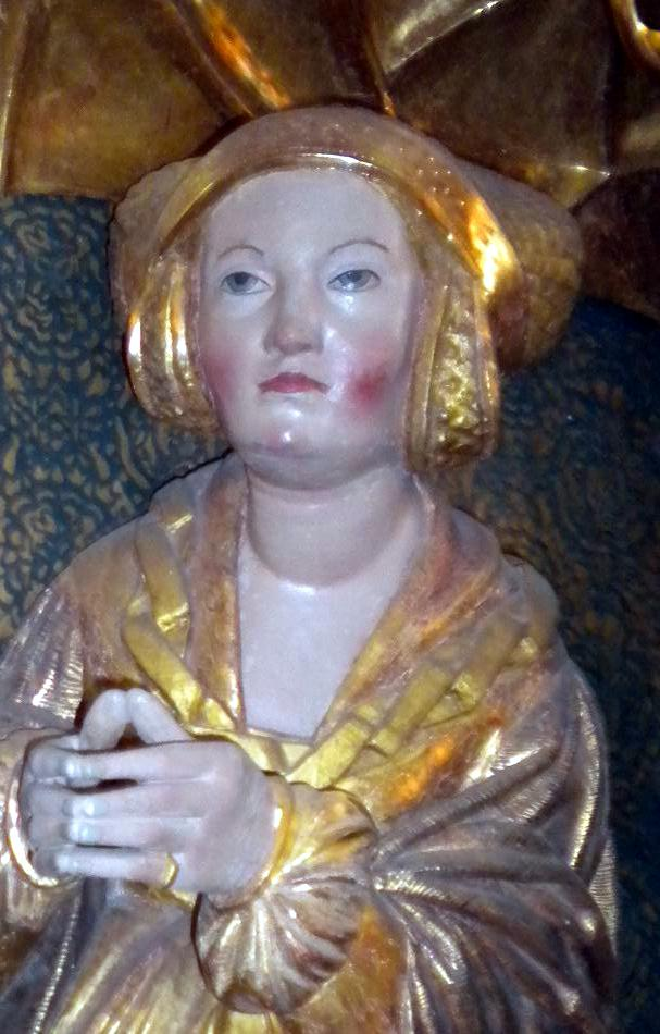 Sculpture of Elizabeth of Brandenburg, née Princess of Denmark, Norway and Sweden by Claus Berg about 1530 Place: Church of St. Canute’s, Odense, Denmark